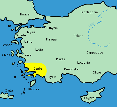 Map of Caria in French. Adaptated from Image:Turkey ancient region map caria.JPG.